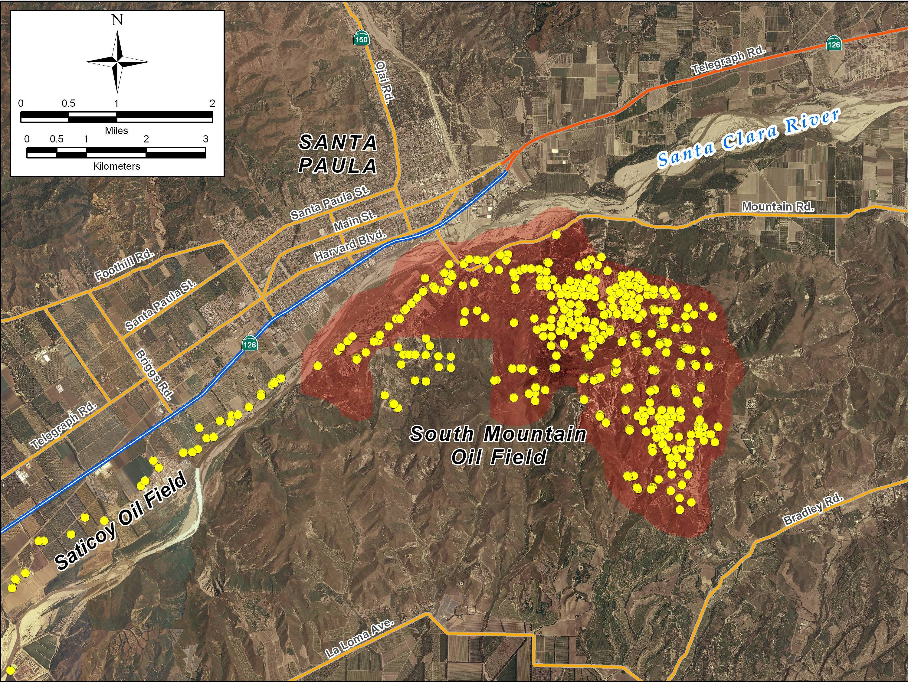 Detail of South Mountain field; by self using ArcGIS 9.3, public domain data (USGS, DOE, USDA NAIP, etc.)